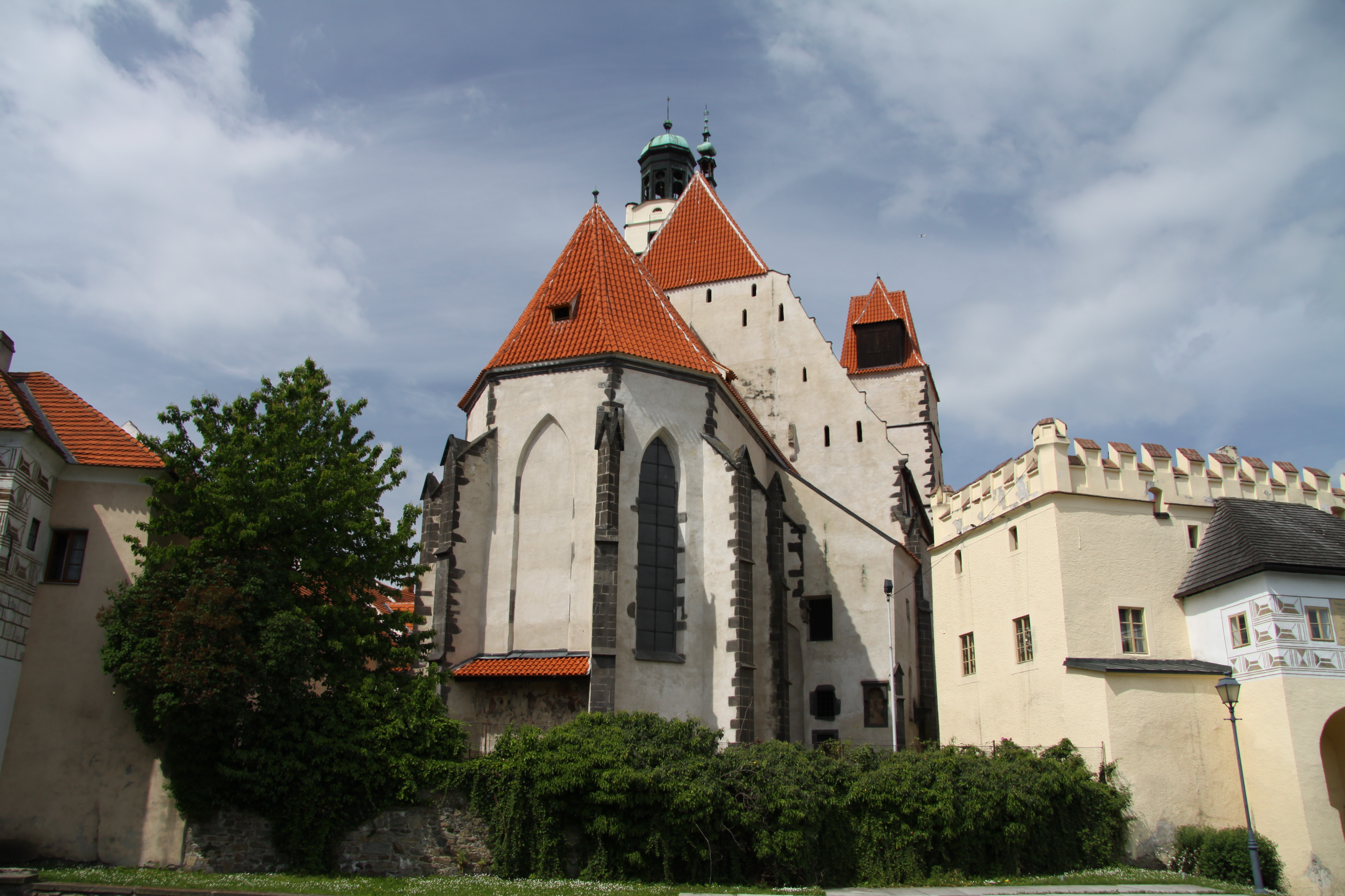 St. James' Church in Prachatice, Prachatice District, Czech Republic - Google Maps - Google Earth